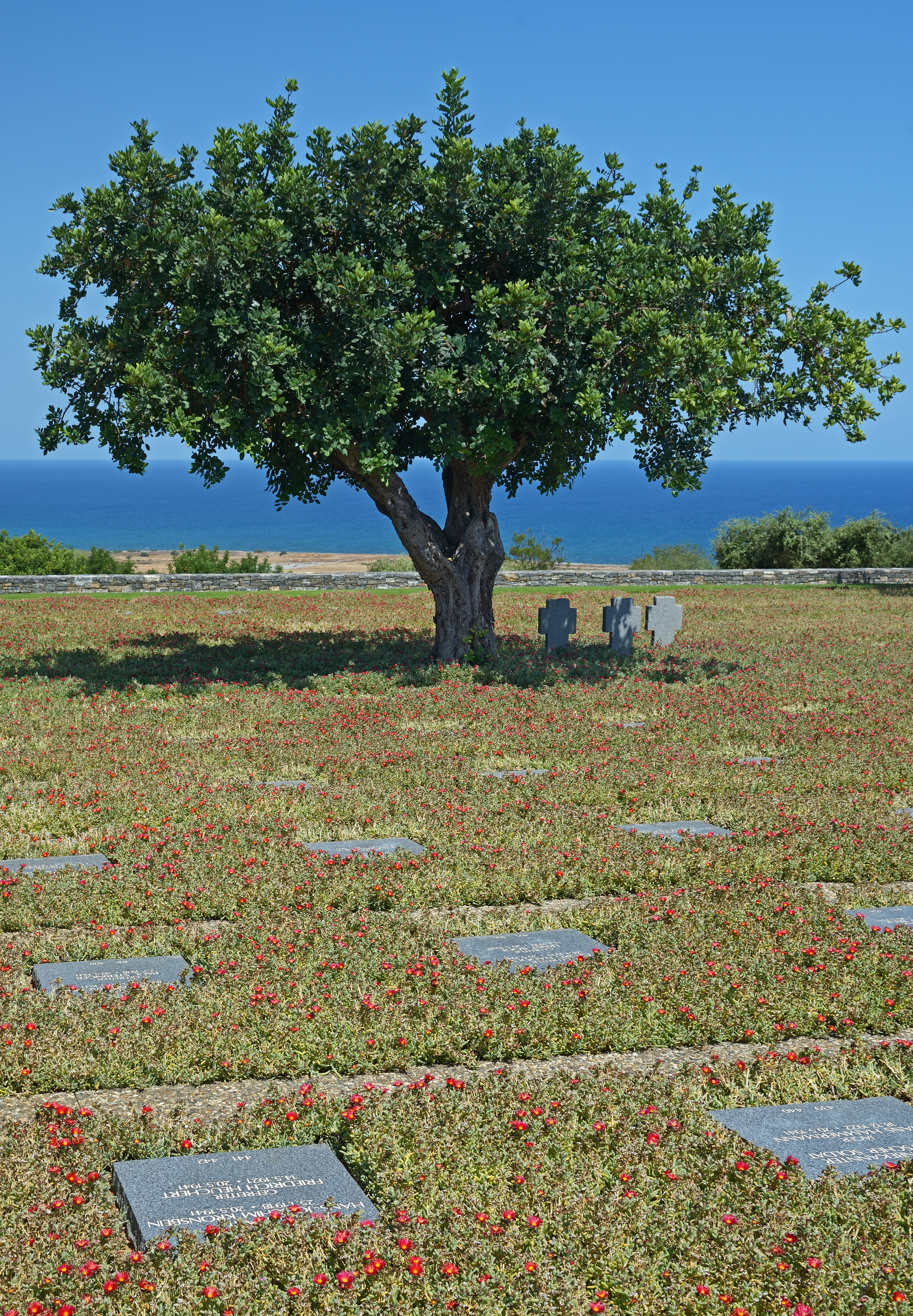 German military cemetery in Maleme. Crete, Greece